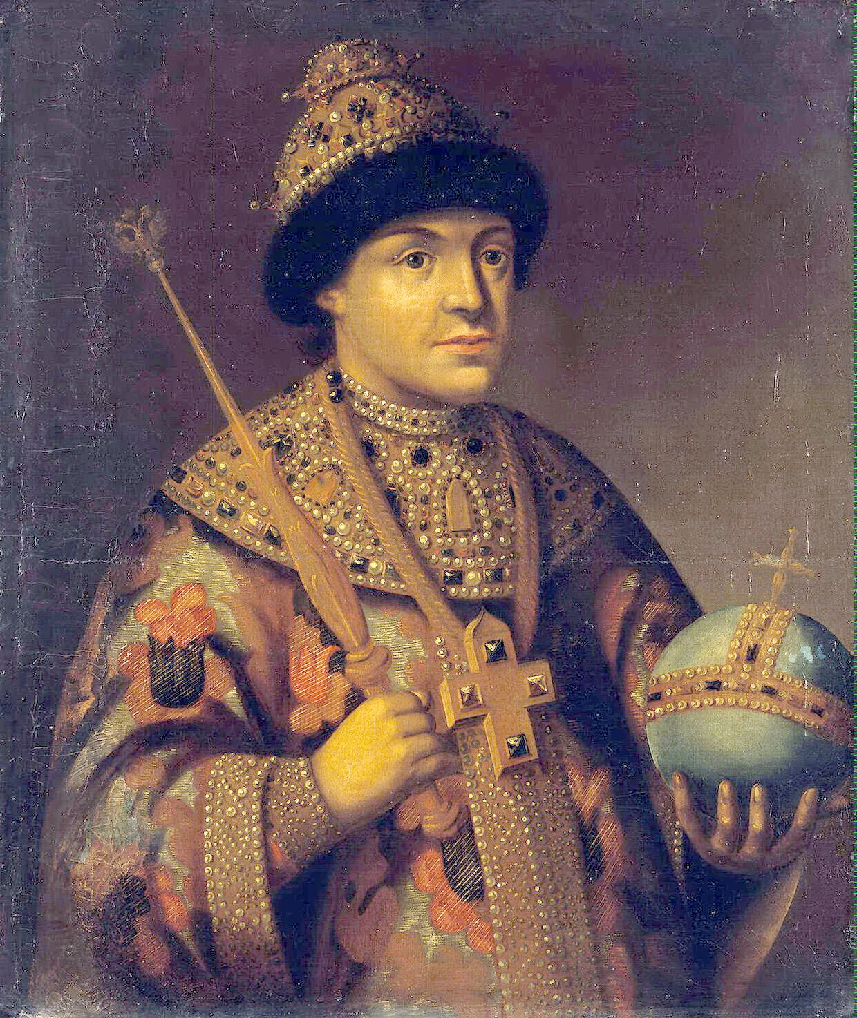 Feodor (Theodore) III Alexeevich of Russia (In